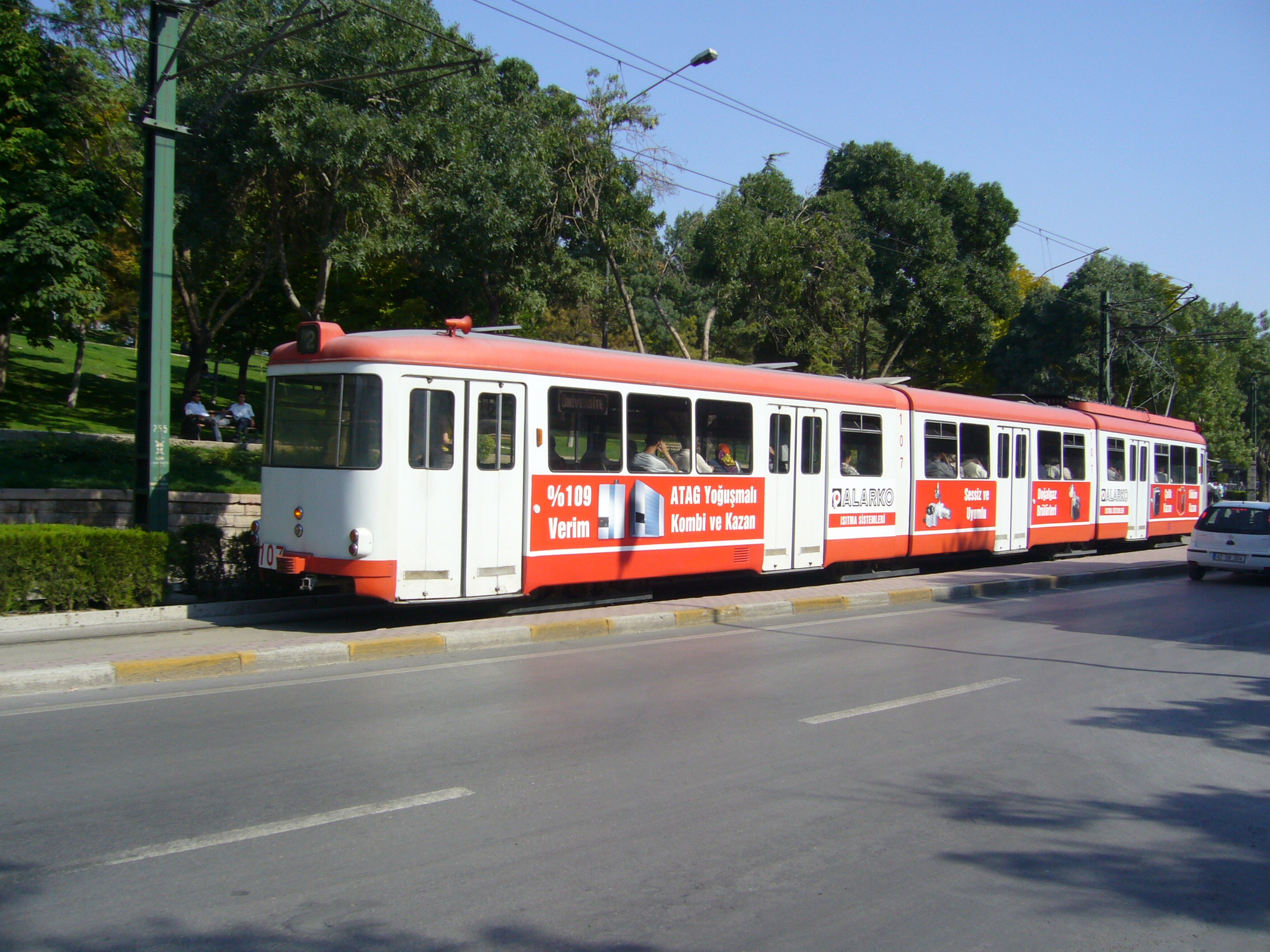 Konya city tram